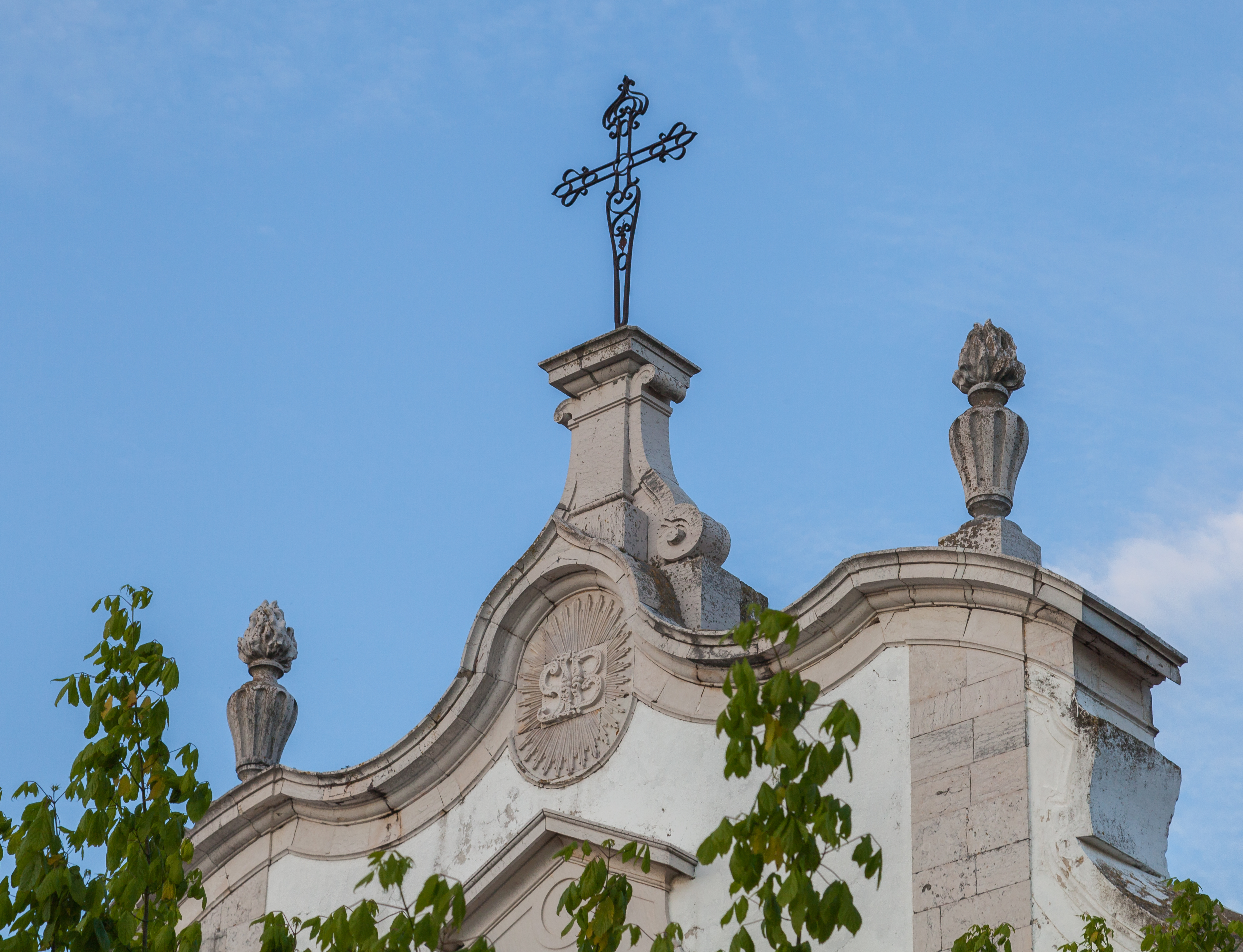 Church of St Julian, Setubal, Portugal